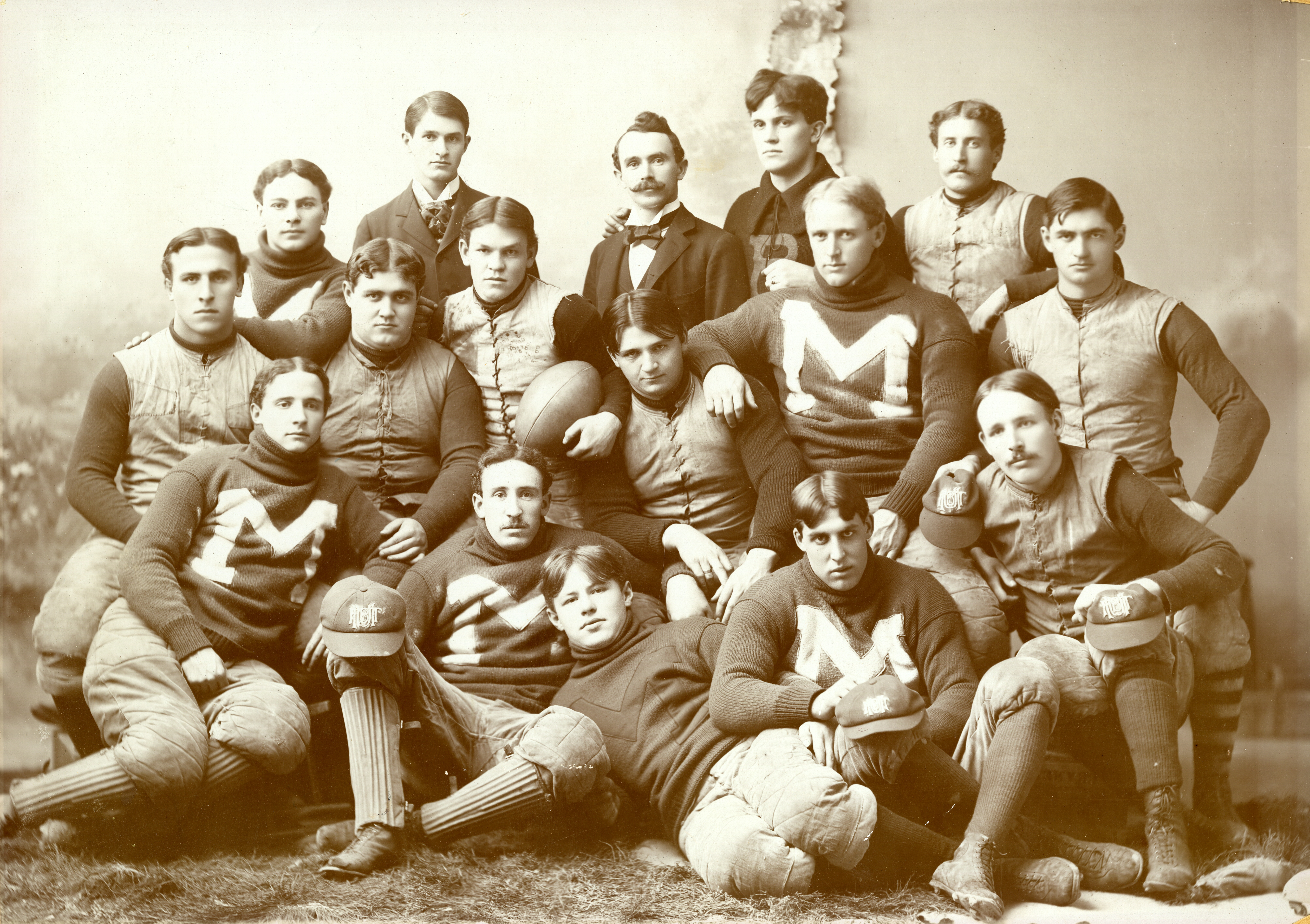 Official photograph of 1894 University of Michigan football team